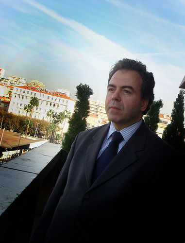 Luc Chatel